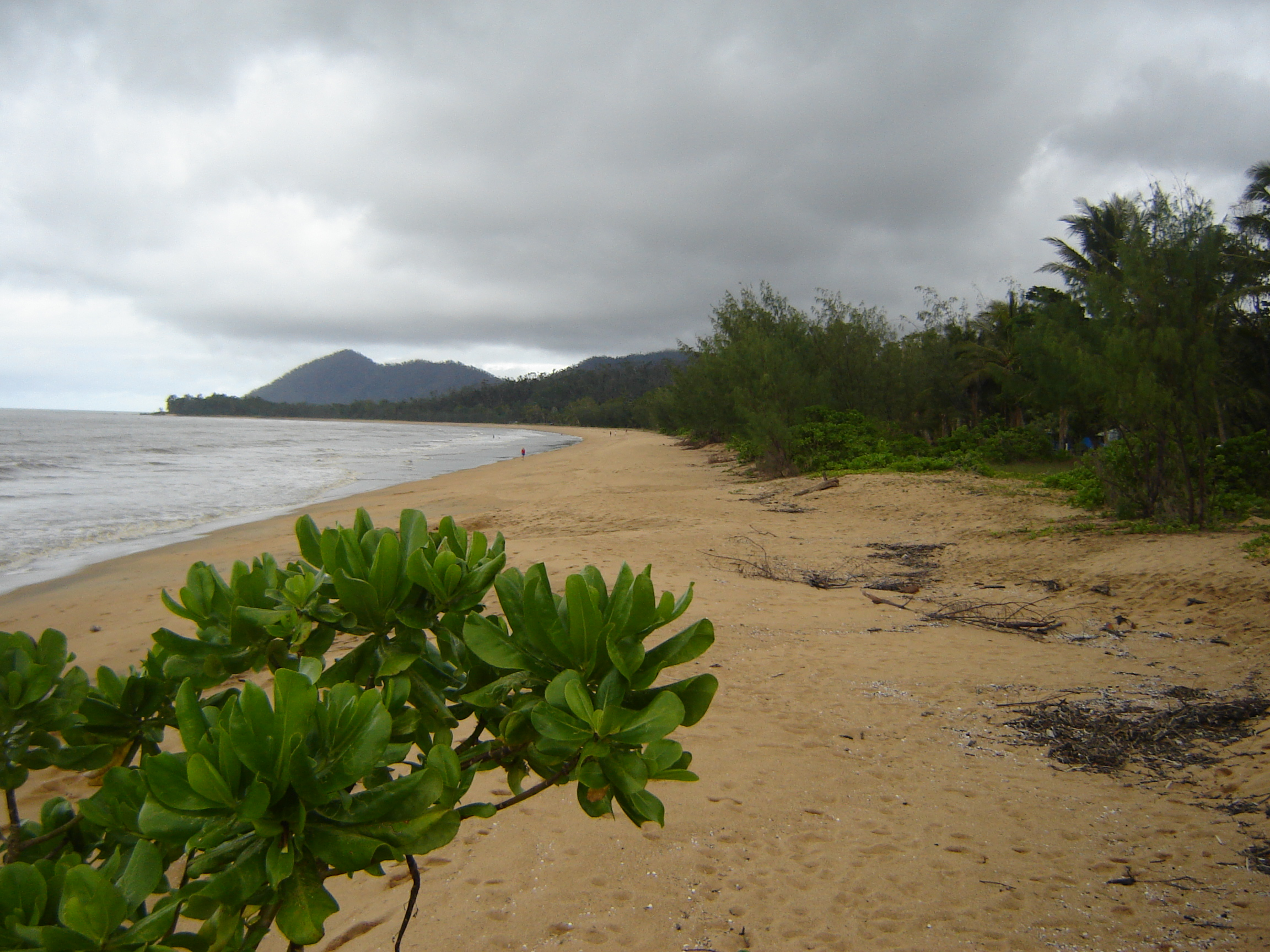 Bramston Beach. Photo taken by Frances76.